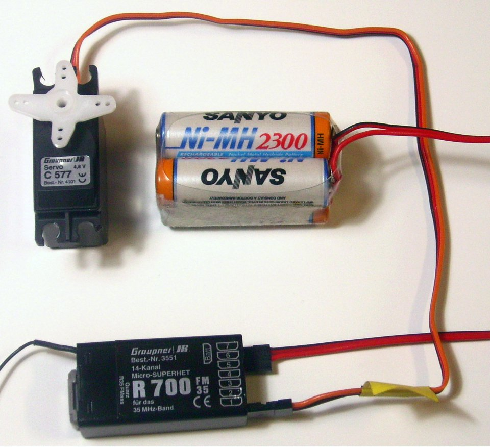 Rc-receiver-servo-battery Optimiert aus Rc-receiver-servo-battery.jpg